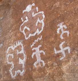 Pictographs located in Zion National Park